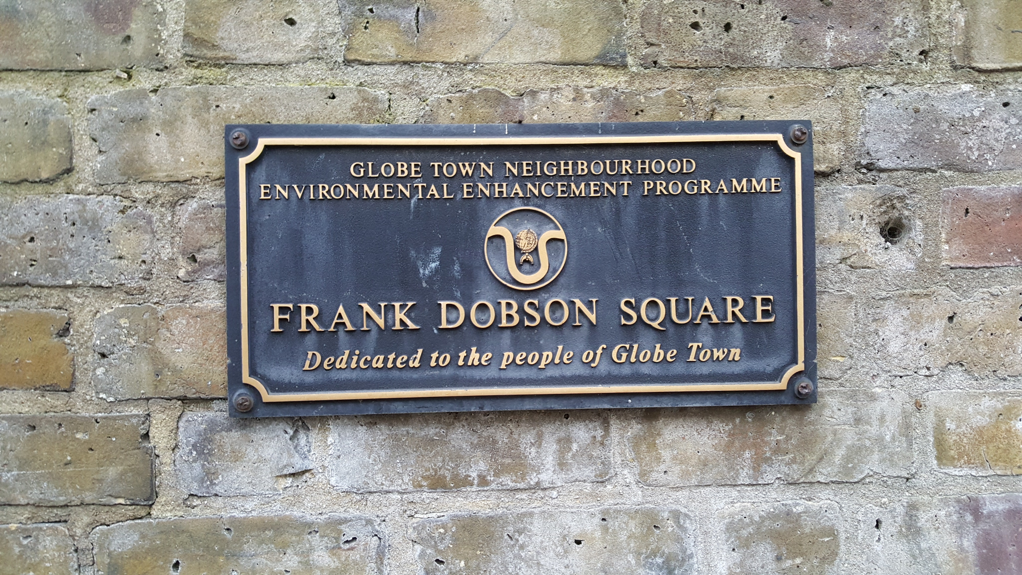 Frank Dobson Square plaque, a dedication to the people of Globe Town, Tower Hamlets